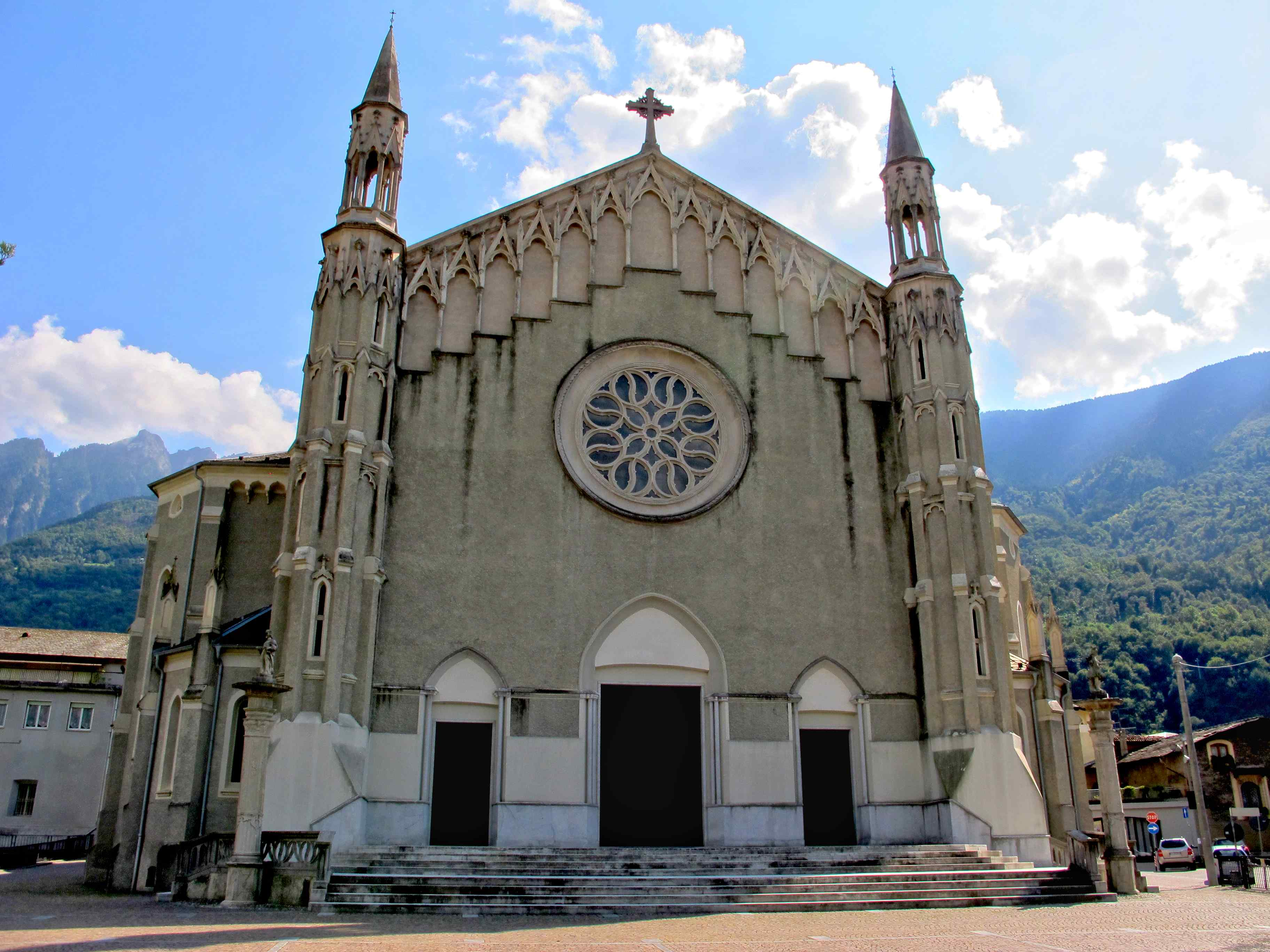 Italy, Lombardy, parish church Talamona